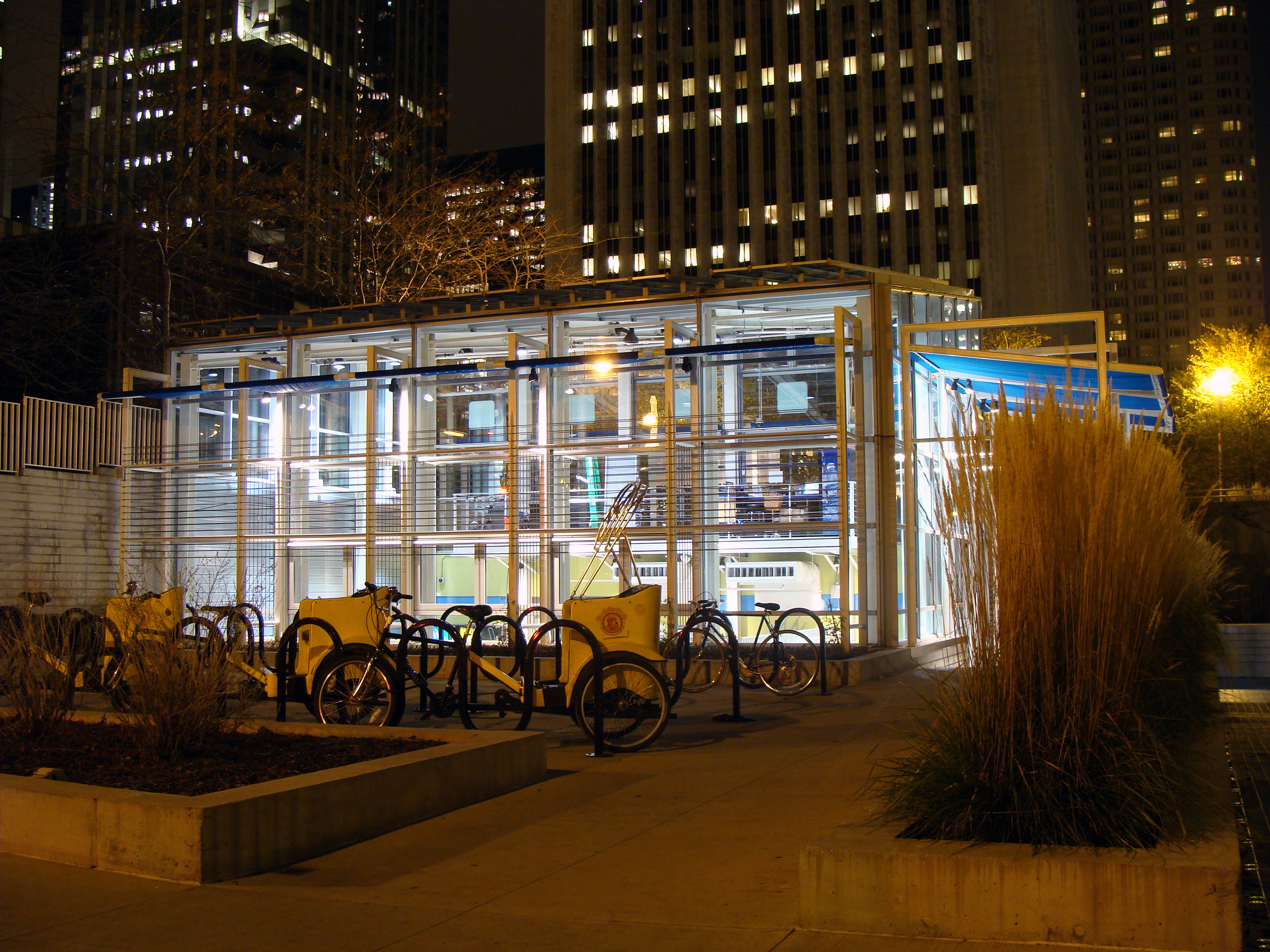 McDonald's Cycle Center at night